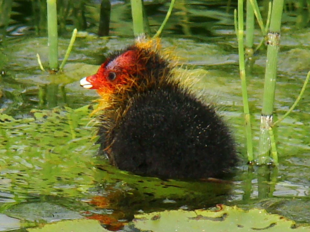 Photo of the juvenile Eurasian Coot (Fulica atra) in in Raizgiai, Siauliai, Lithuania.